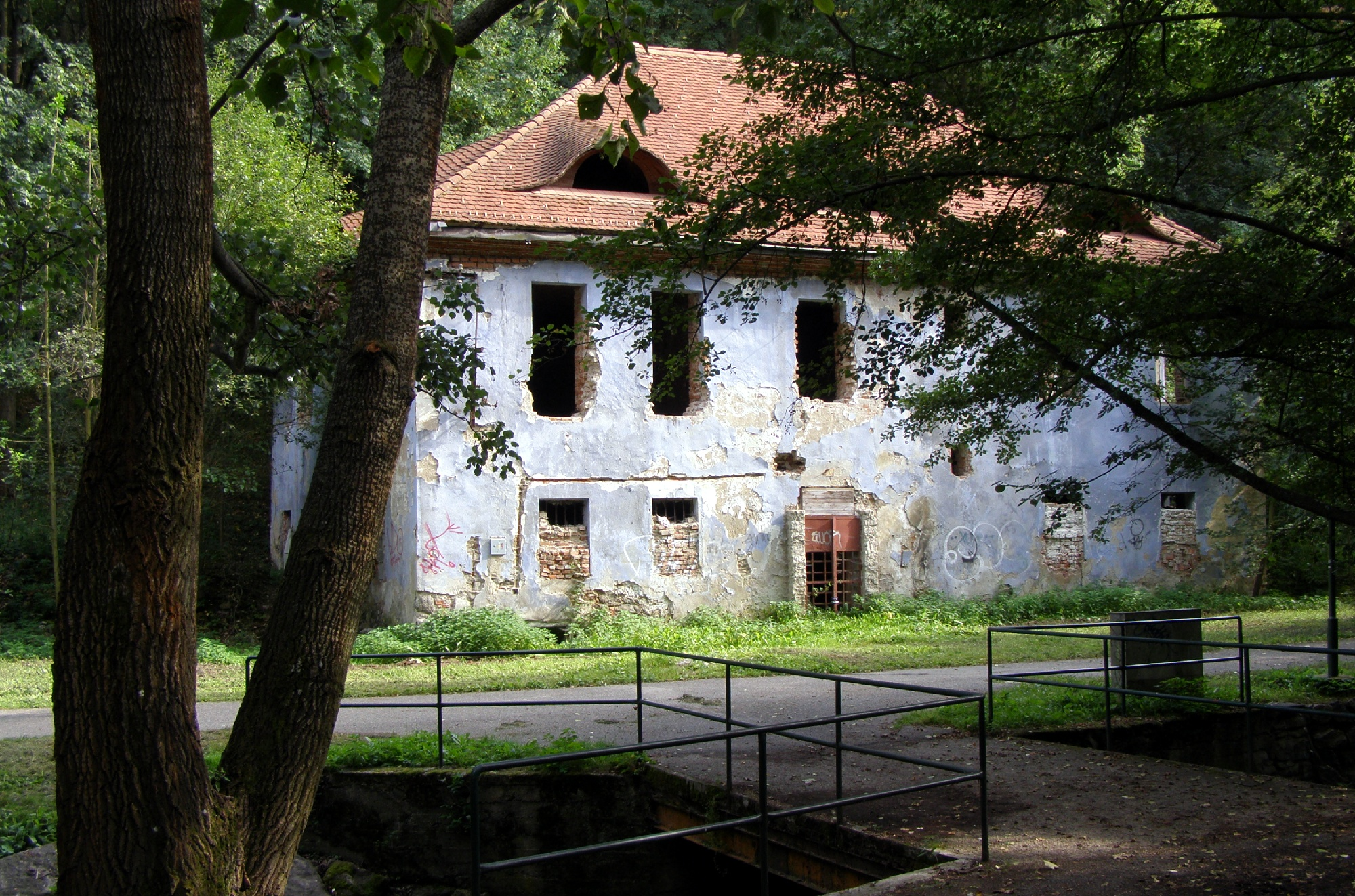 Třebíč-Domky. Libuše valley. Hluchý mill